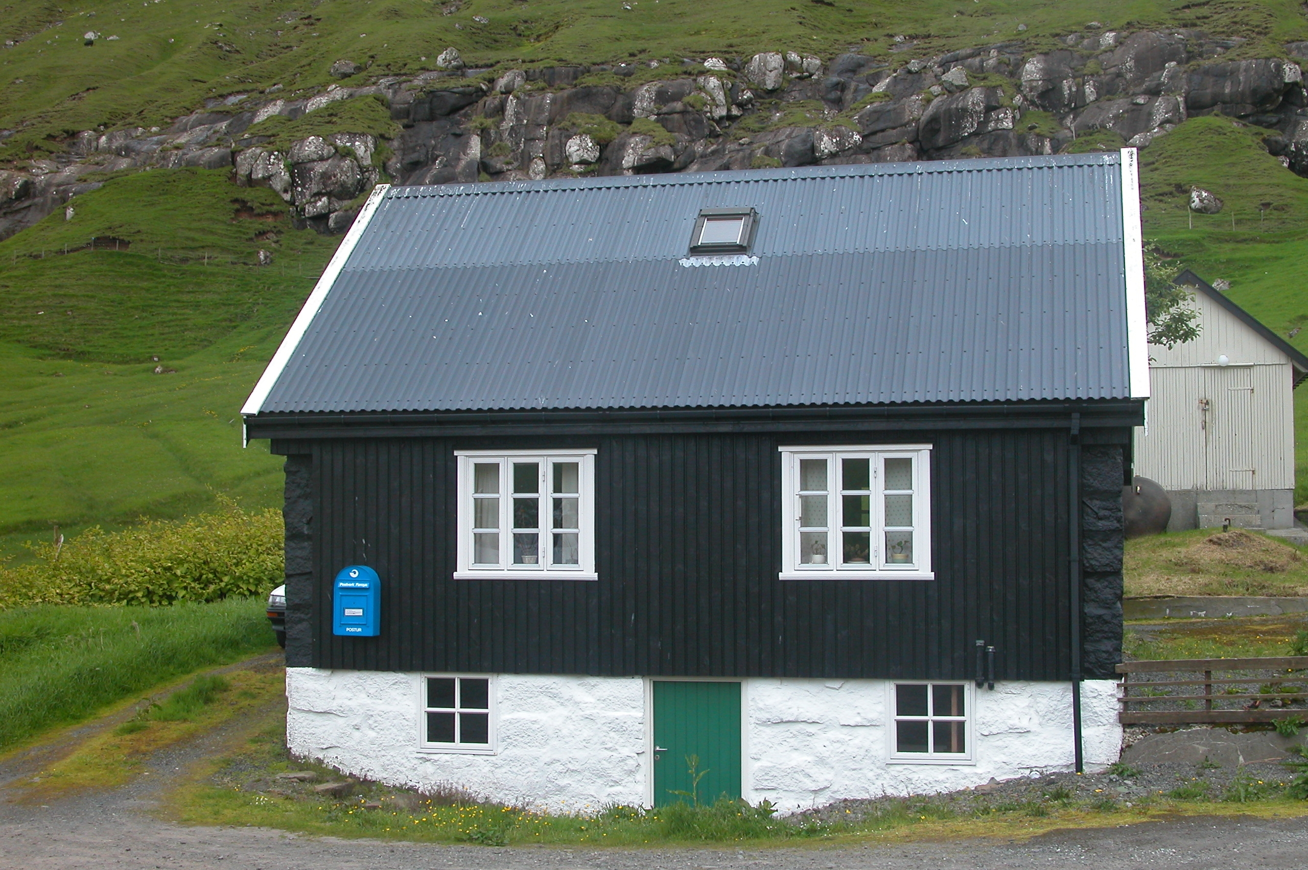 Hellur, Eysturoy, Faroe Islands.